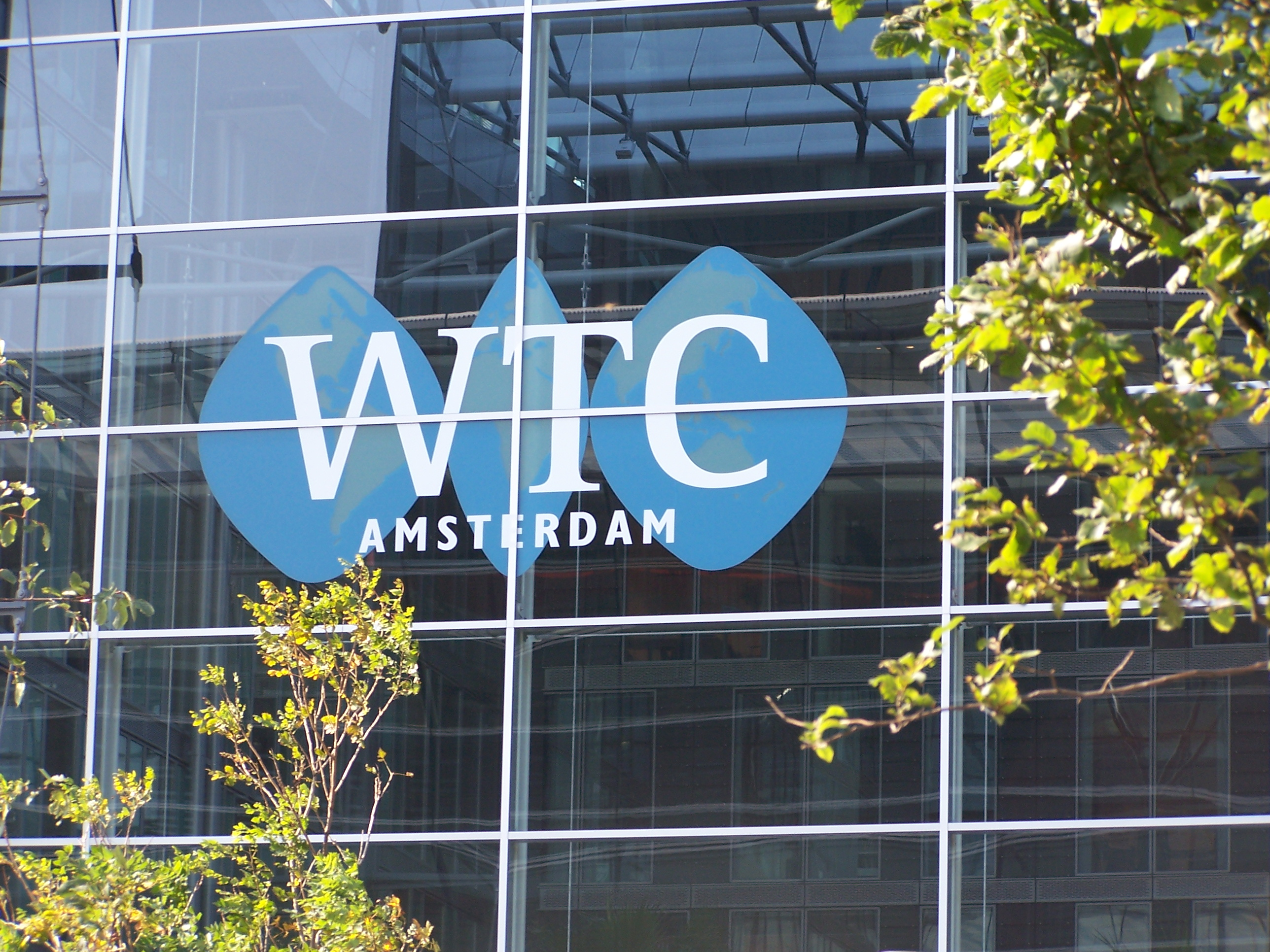 This picture shows the World Trade Center in Amsterdam, the Netherlands.